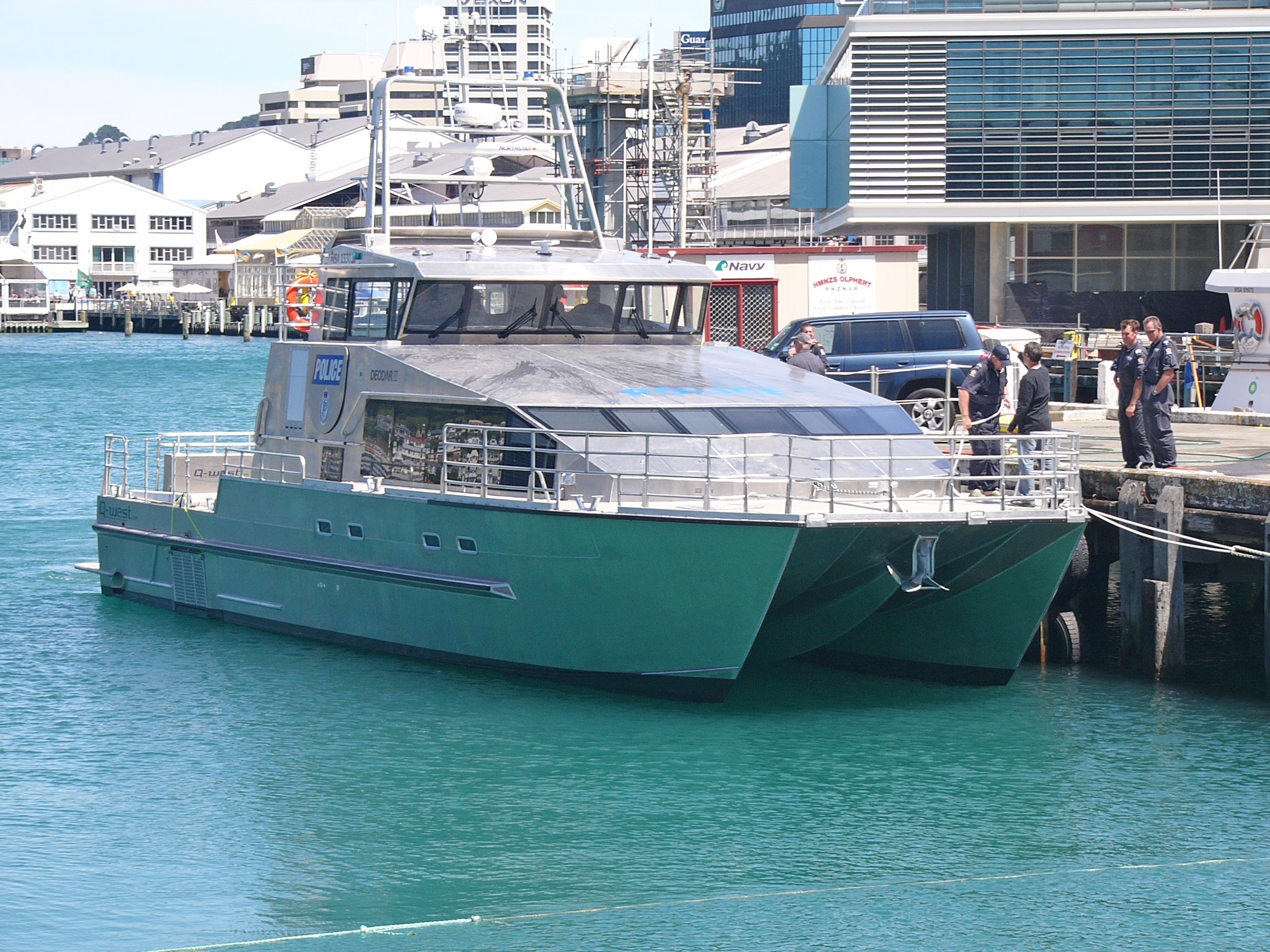 New Zealand Police launch Deodar III in Auckland